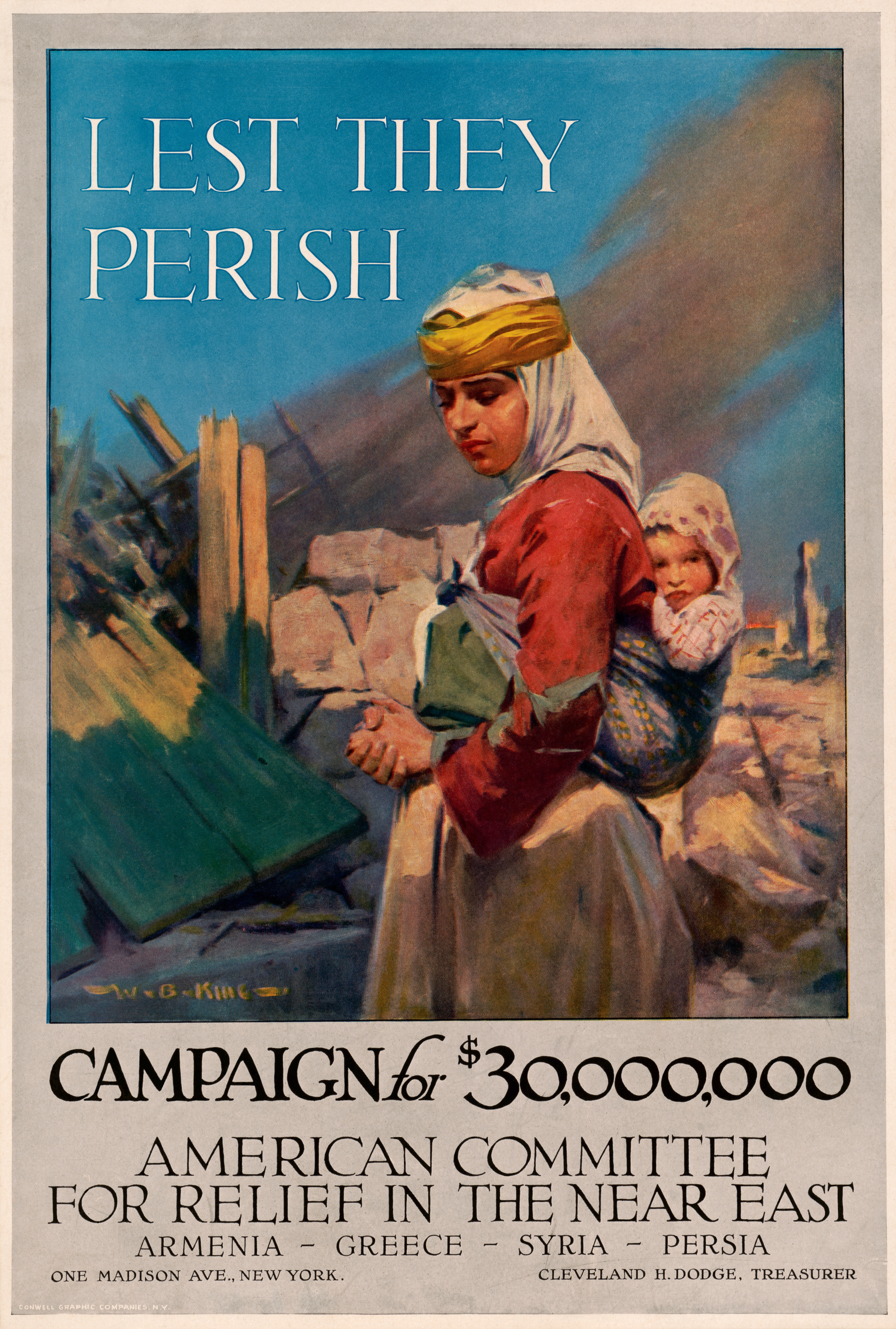 Title: Lest they perish Campaign for $30,000,000 - American Committee for Relief in the Near East--Armenia-Greece-Syria-Persia / / W.B. King ; Conwell Graphic Companies, N.Y. Abstract/medium: 1 print : color lithograph ; sheet 47 x 32 cm (poster format)